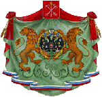 Saint-Petersburg State Polytechnical University Emblem